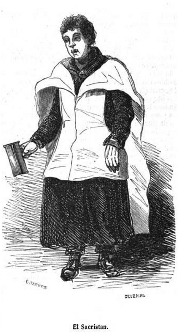 "El Sacristan", illustration from the book Los Españoles pintados por sí mismos.